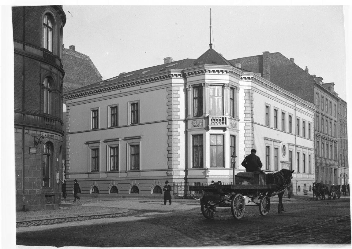 Levins Gård in Copenhagen, Denmark